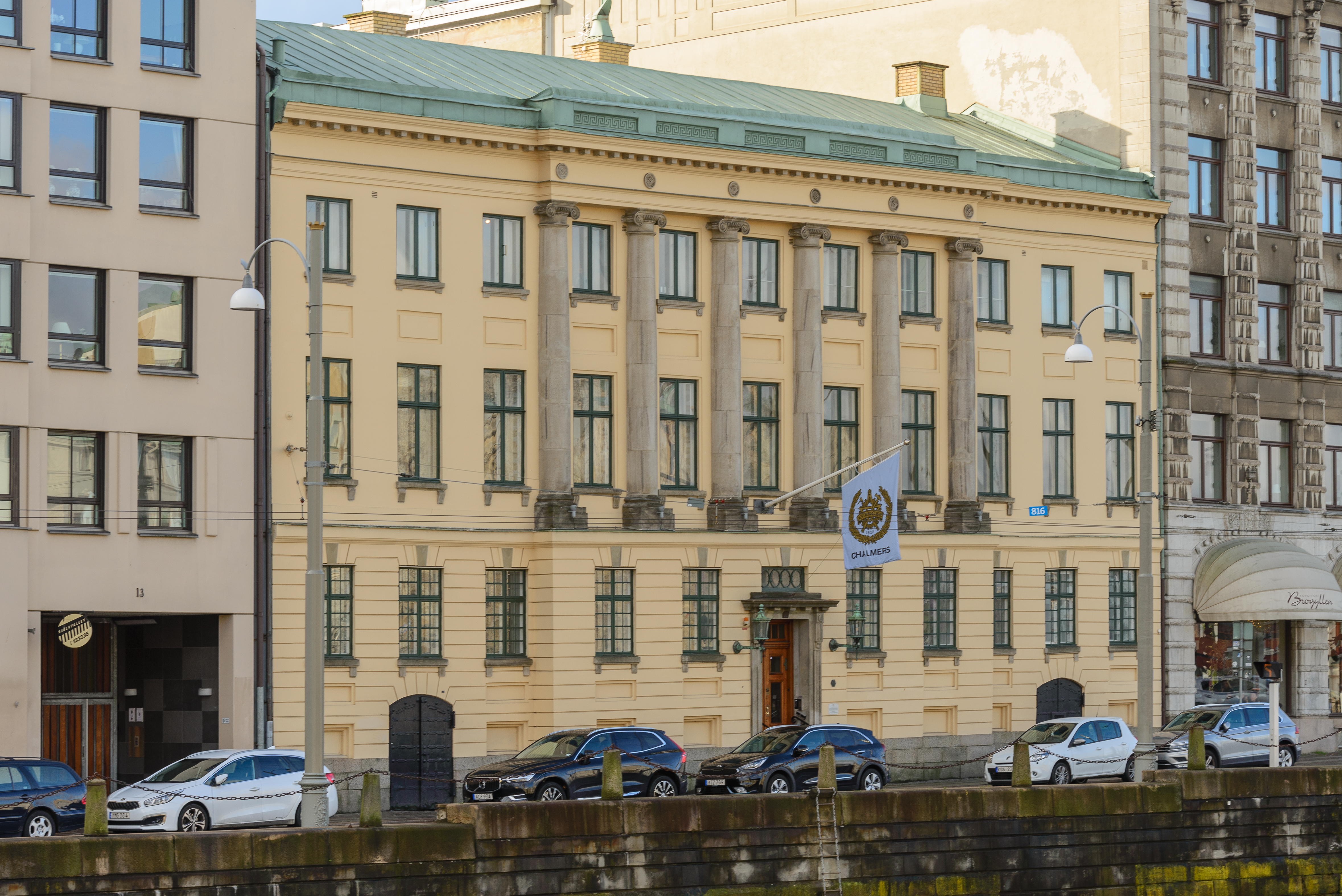 Chalmerska huset is a listed building in Gothenburg, Sweden.